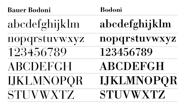 Comparative Bauer Bodoni versus Bodoni